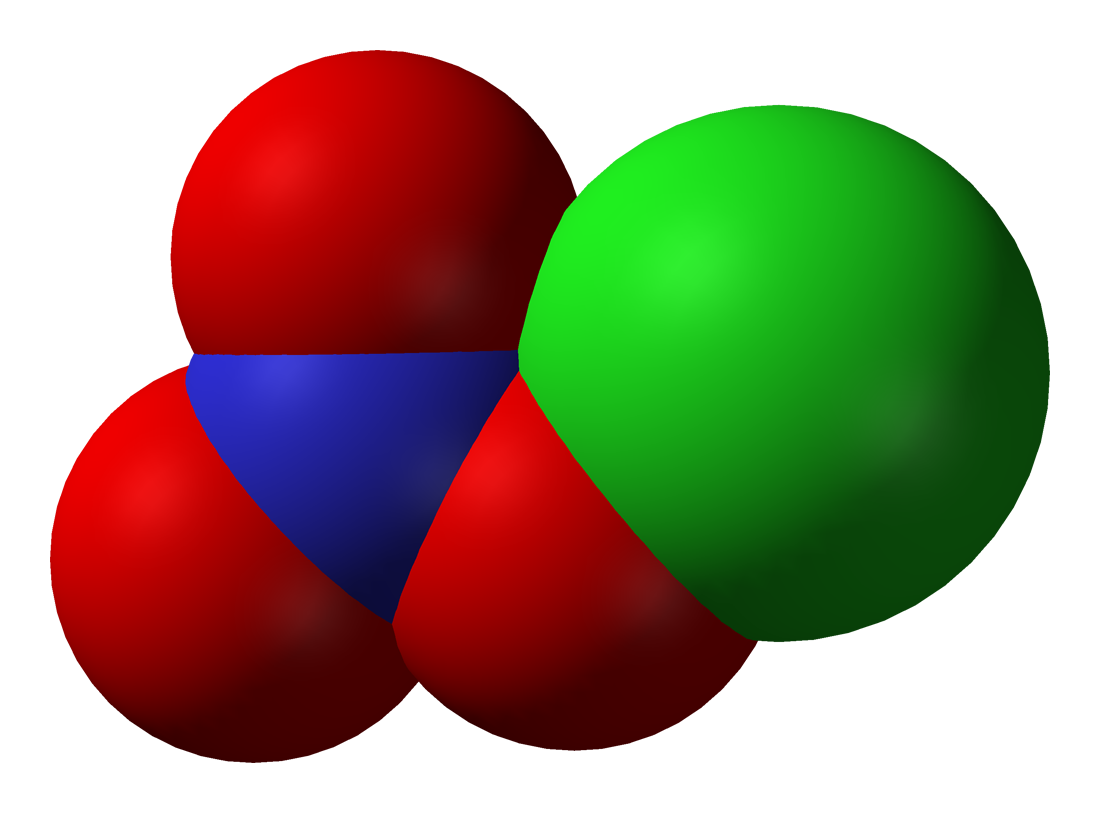 Space-filling model of the chlorine nitrate molecule, ClONO2